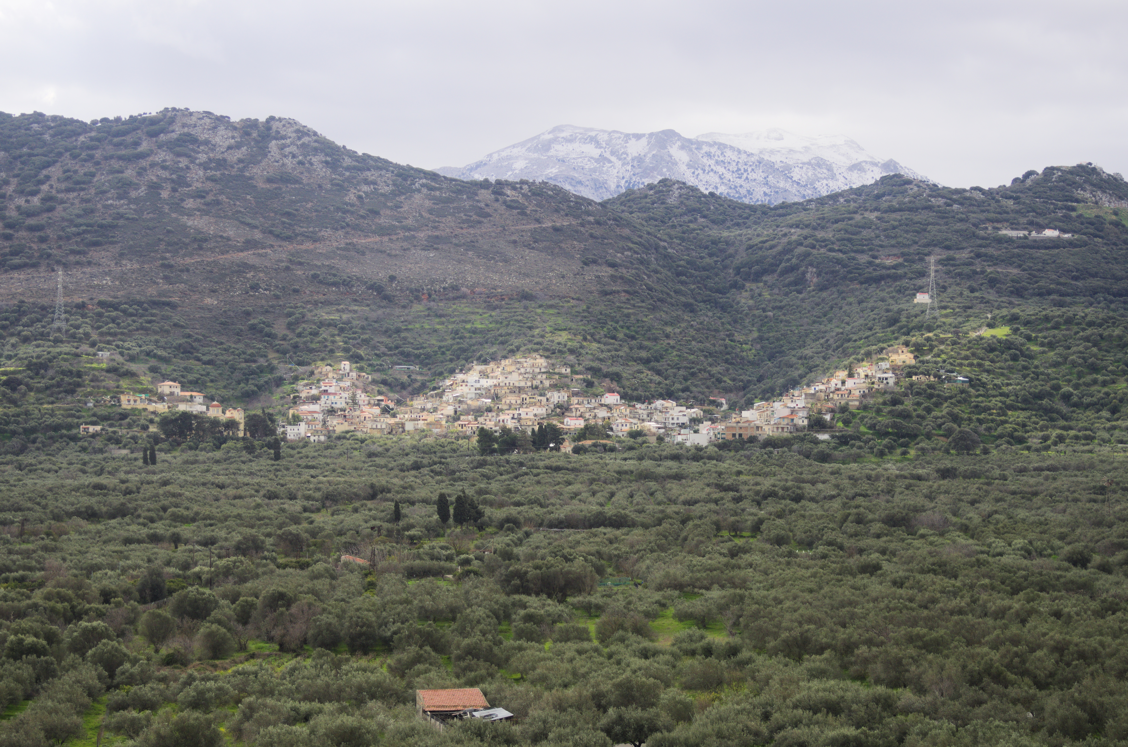 View of Houmeriakos, Crete, from north.